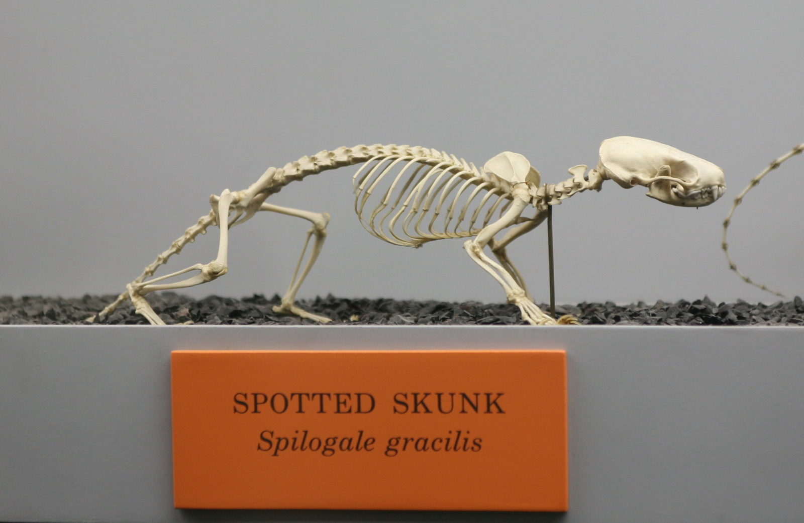 Skeleton of Spilogale gracilis in the National Museum of Natural History, USA.